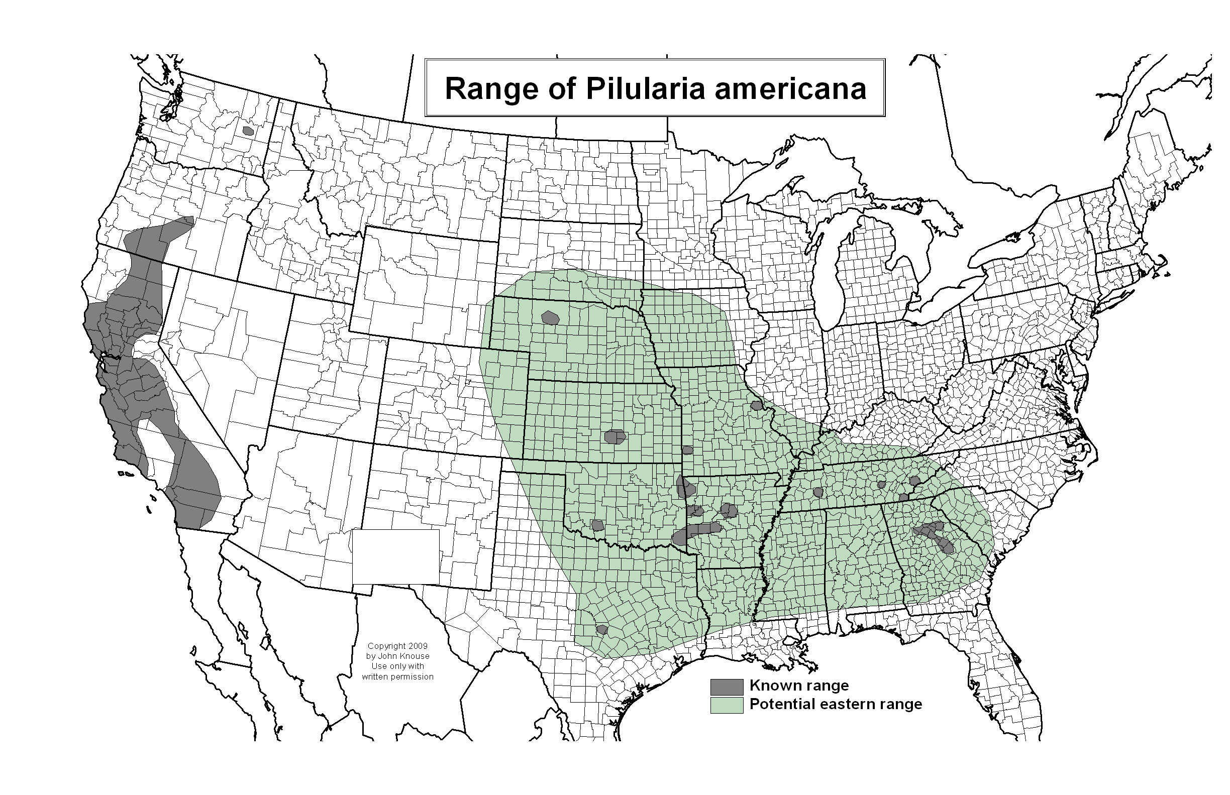 Range map of Pilularia americana north of Mexico, generated with ArcView GIS 3.3.